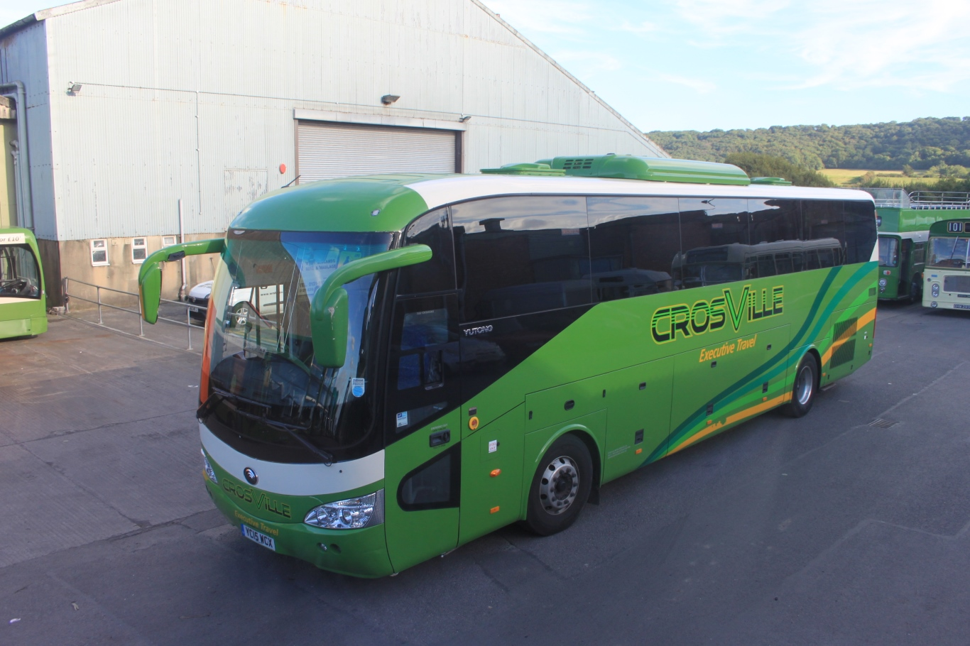 A Yutong ZK6129H coach (registration YC15WCX) operated by Crosville Motor Services is seen at their depot in Weston-super-Mare.